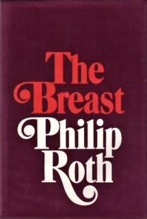 Front cover to The Breast by Philip Roth